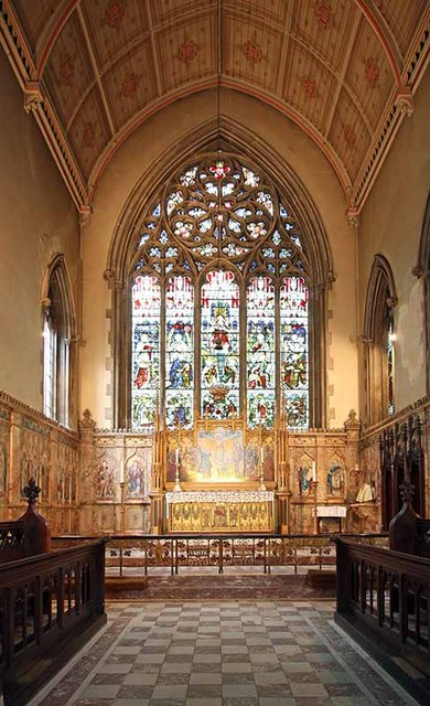 St Gabriel's Church, Warwick Square, London SW1 - Chancel, near to Westminster, Great Britain.